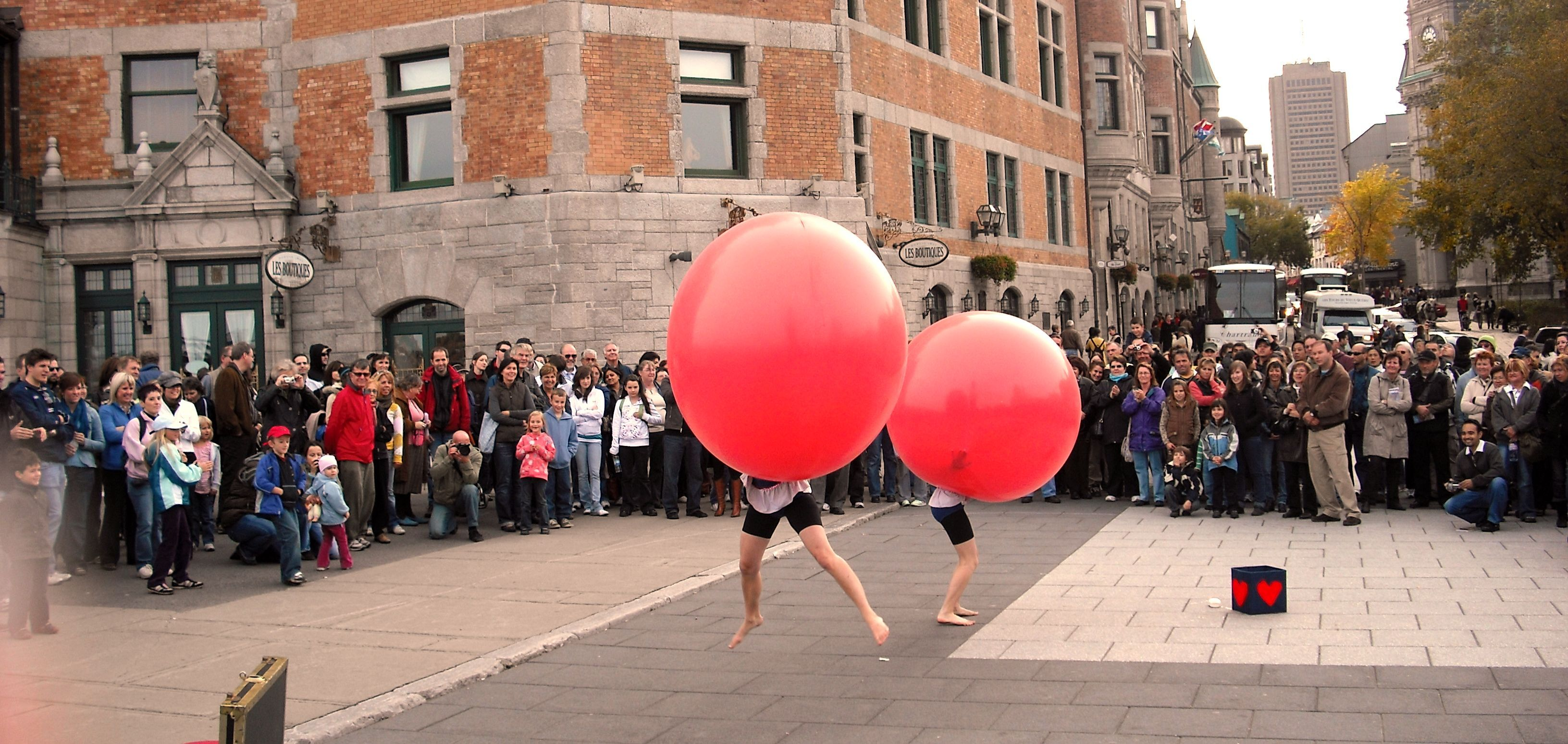 Emplume performing at the streets